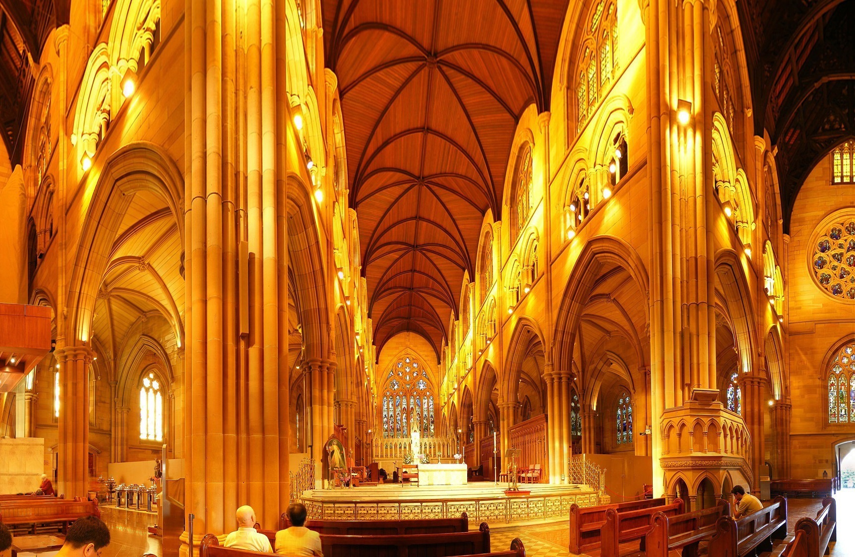 St Marys Sydney. This is a wide image consisting of 20 or more separate images.